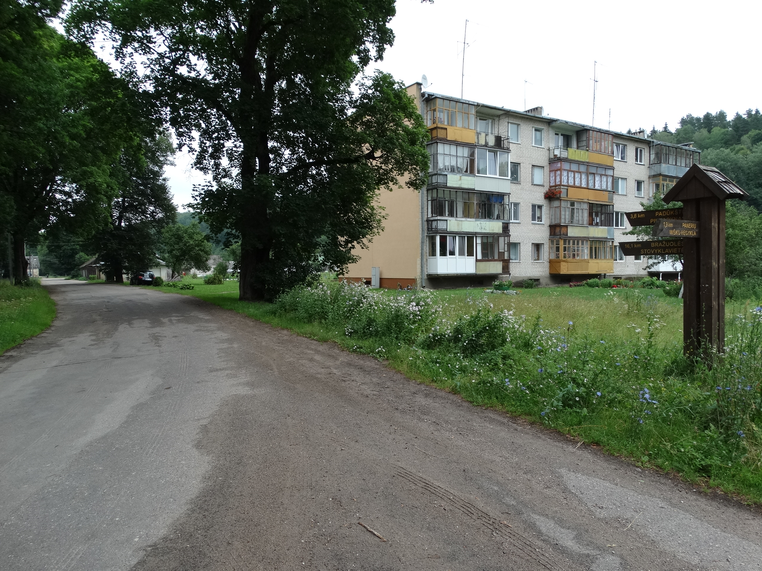 Paneriai, Elektrėnai Municipality, Lithuania